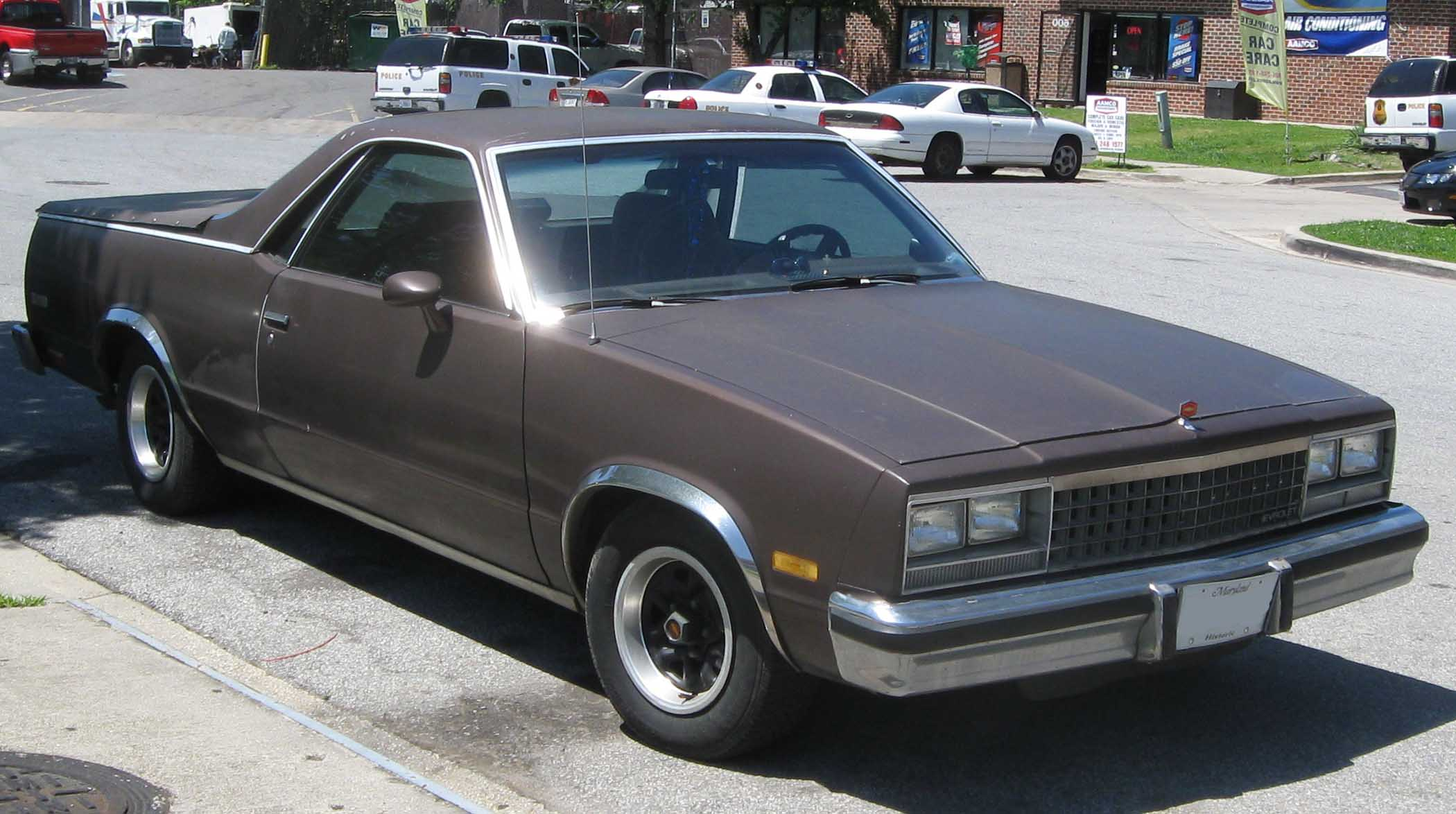 Chevrolet El Camino photographed in Fort Washington, Maryland, USA.